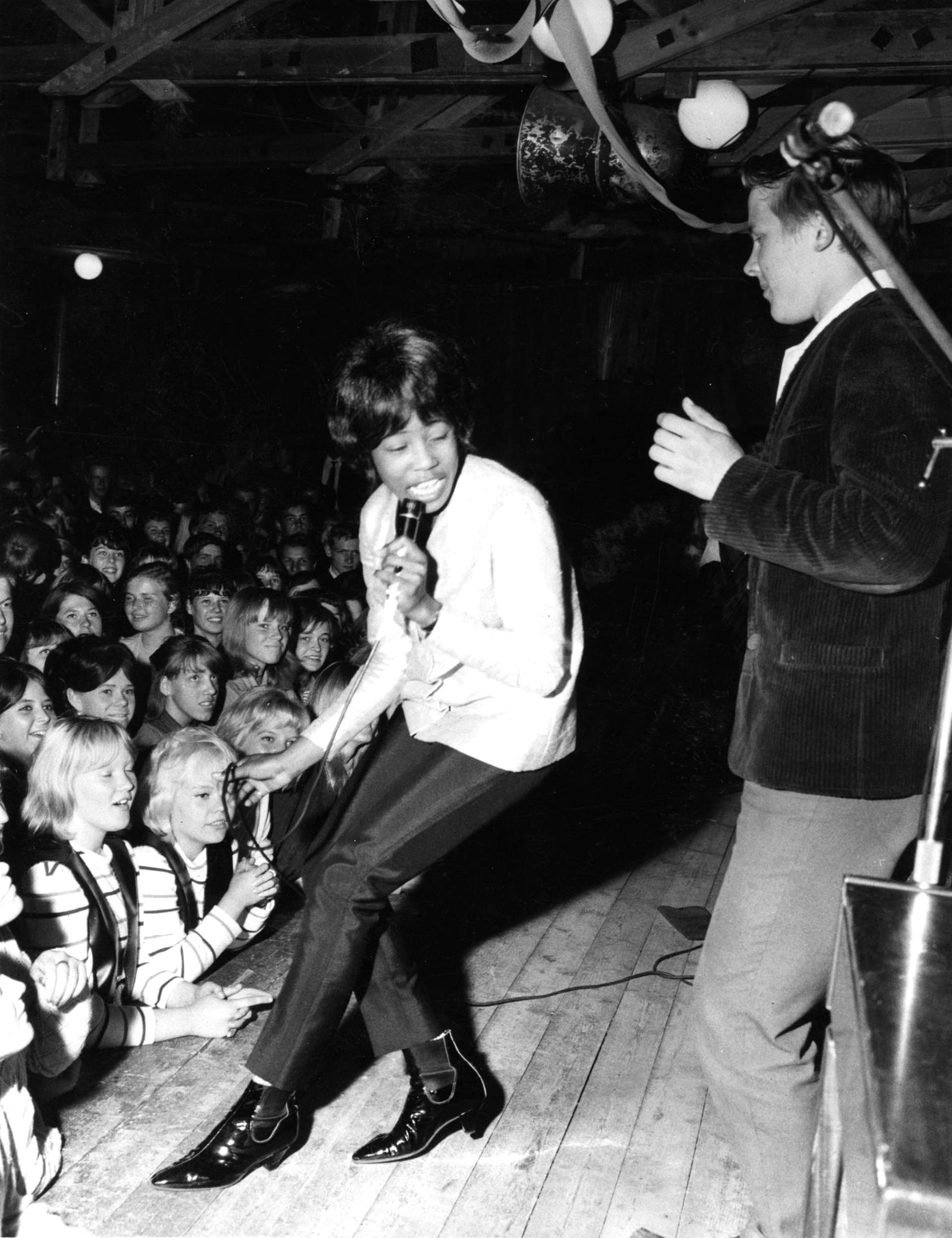 Photograph of Millie Small performing in Finland.